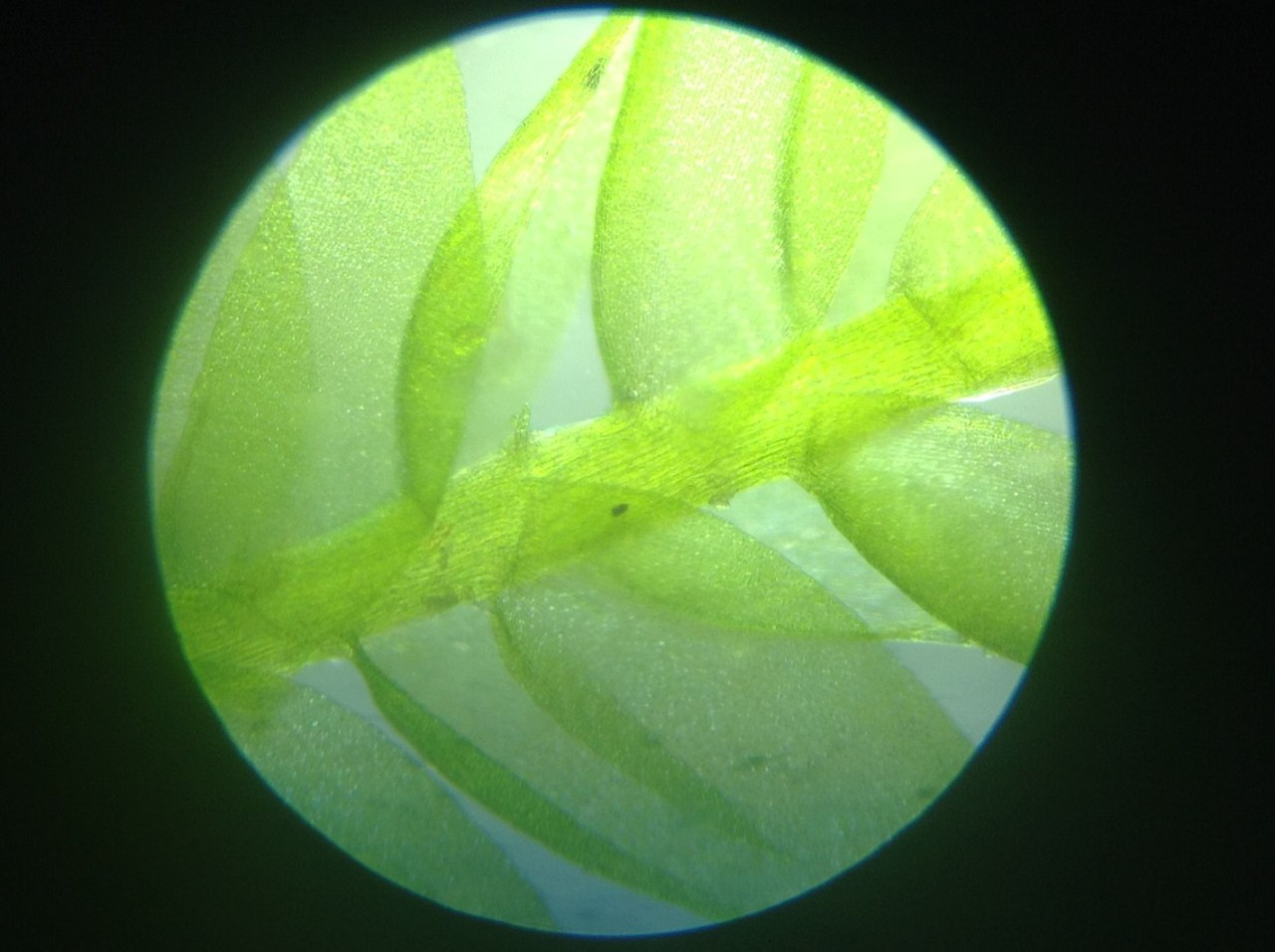 Яванский мох 16-ти кратное увеличение